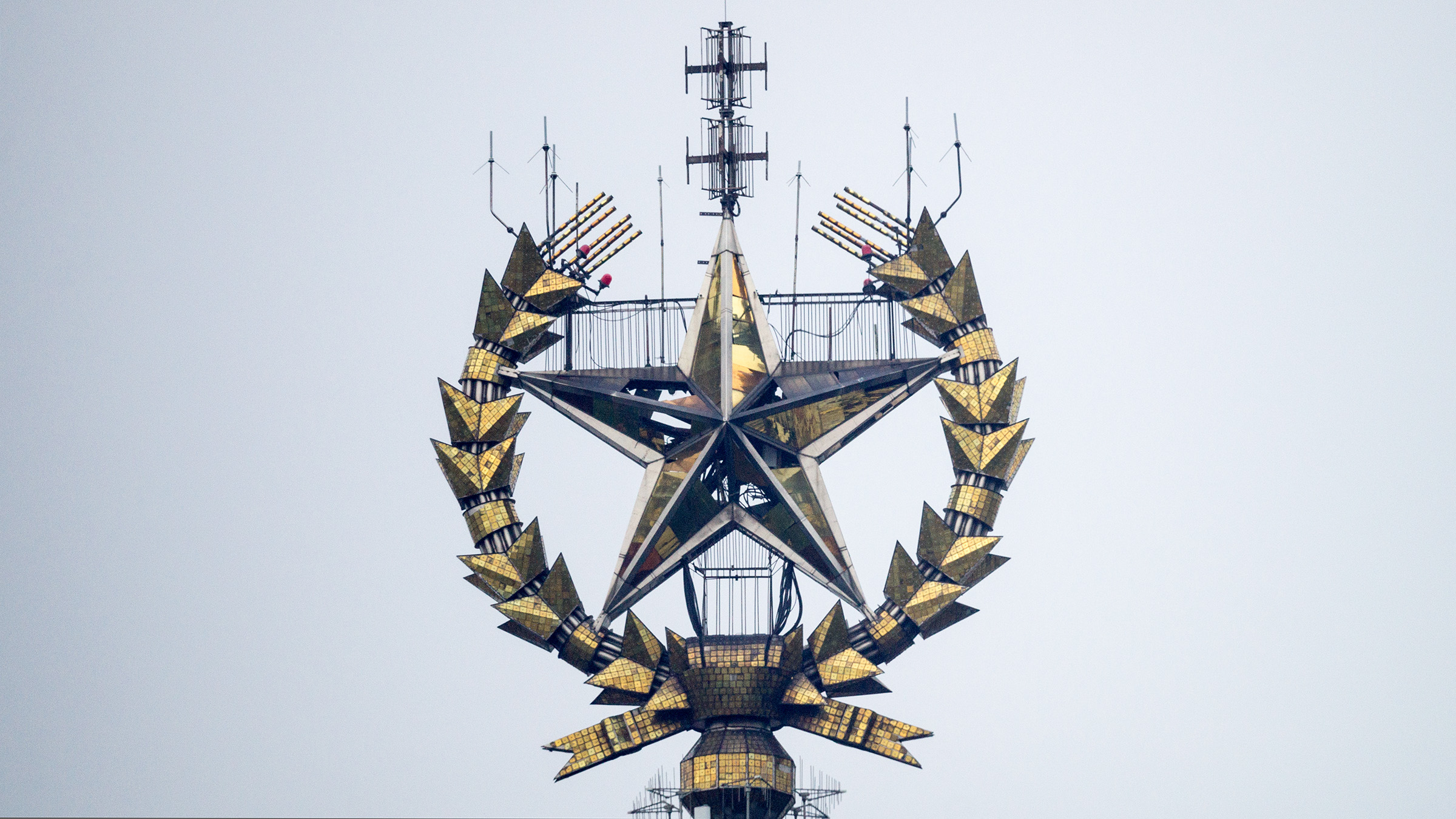 Star on top of Moscow State University Main Building, shot with Sky-Watcher 150/1000 reflecting telescope on June 6, 2012, during observing Venus Sun transit